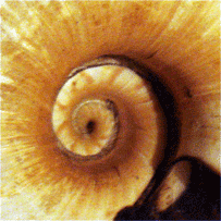 Umbilicus of Allonautilus scrobiculatus Image taken by User:Mgiganteus1